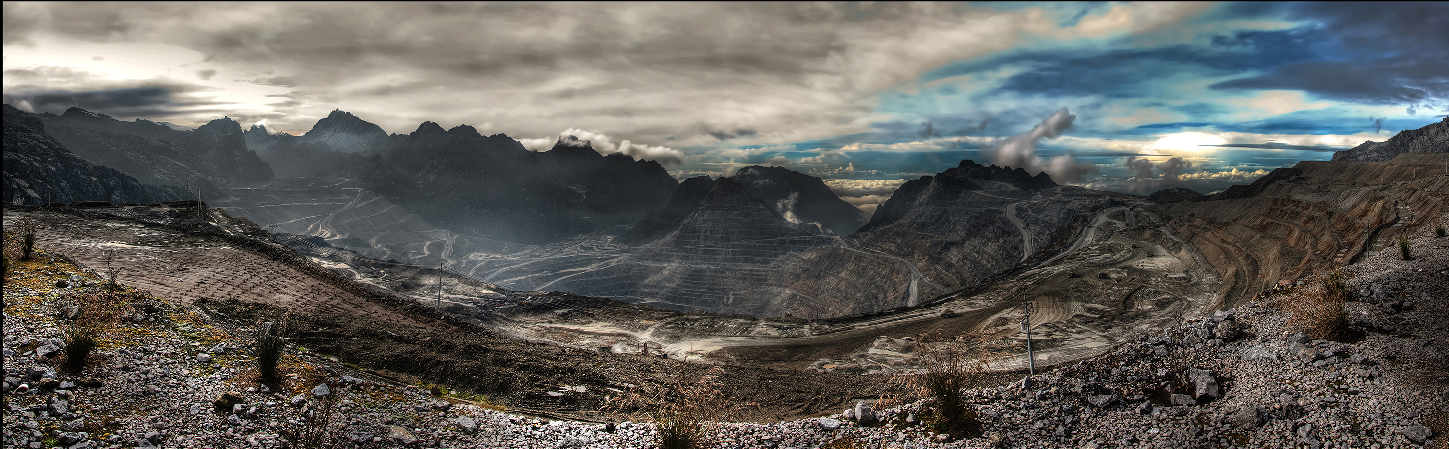 Panorama from high up at Grasberg gold and copper mine West Papua indonesia. Nikon D40x, Nikon 18-105mm VR lens. 6 HDR Images taken in portrait and stiched using Autopano pro. Make sure you view the larger versions..